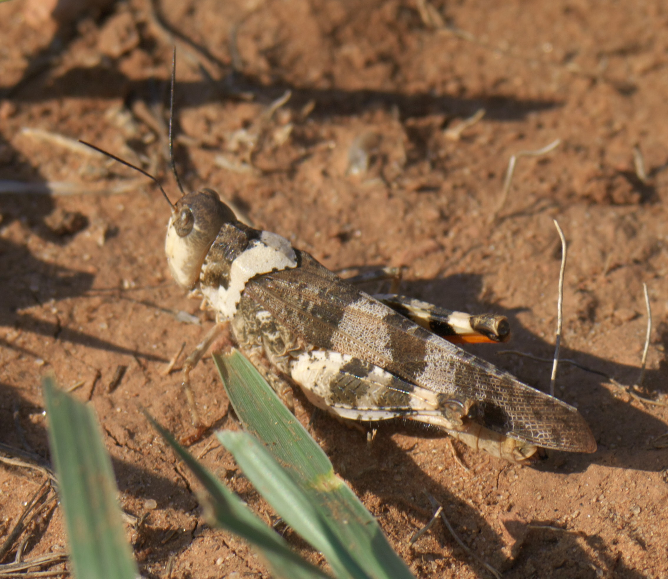 Spharagemon equale, Say's Grasshopper, ID Confidence: 90